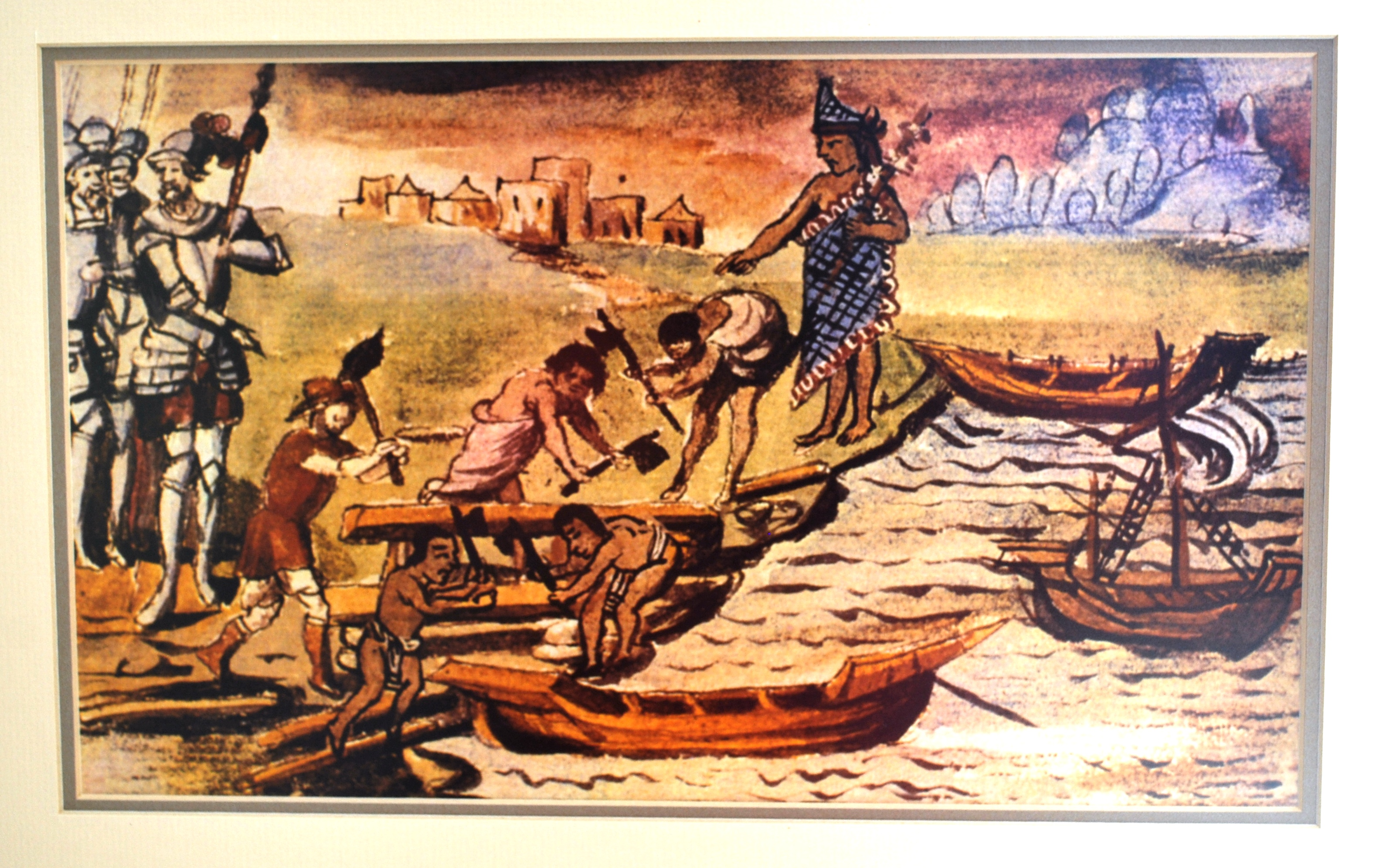 Image from the Duran Codex showing Indians making ships under the direction of the Spanish to use to conquer Tenochtitlan